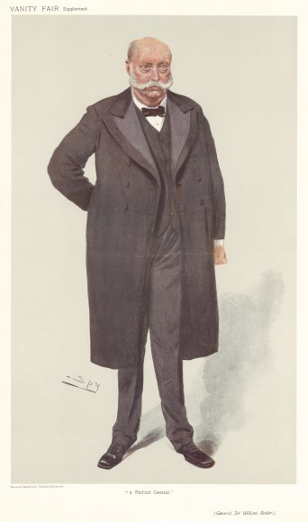 Caricature of General Sir WF Butler GCB. Caption read "a Radical General".